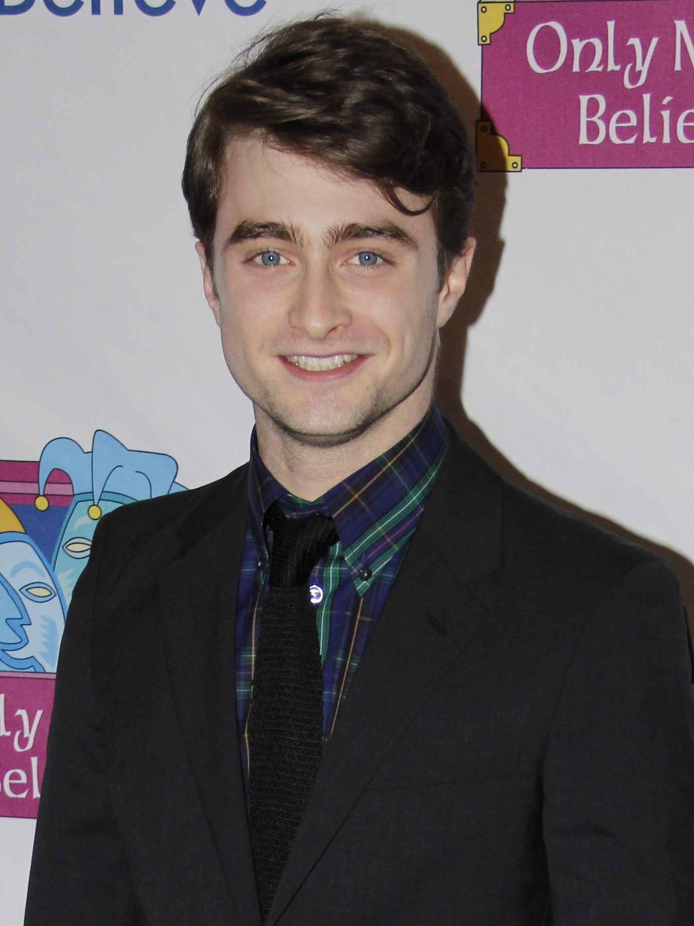 Daniel Radcliffe at the Make Believe On Broadway 2011, New York City.